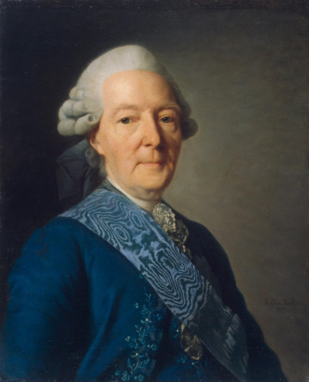 Ivan Ivanovich Betskoy (1704–1795), Russian public figure, president of the Imperial Academy of Arts (1763–1794)